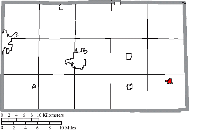 Map of the municipal and township boundaries of Seneca County, Ohio, United States, as of the 2000 census, with the location of the village of Attica highlighted. Township borders are shown only in unincorporated areas in order to differentiate incorporated and unincorporated areas more clearly.